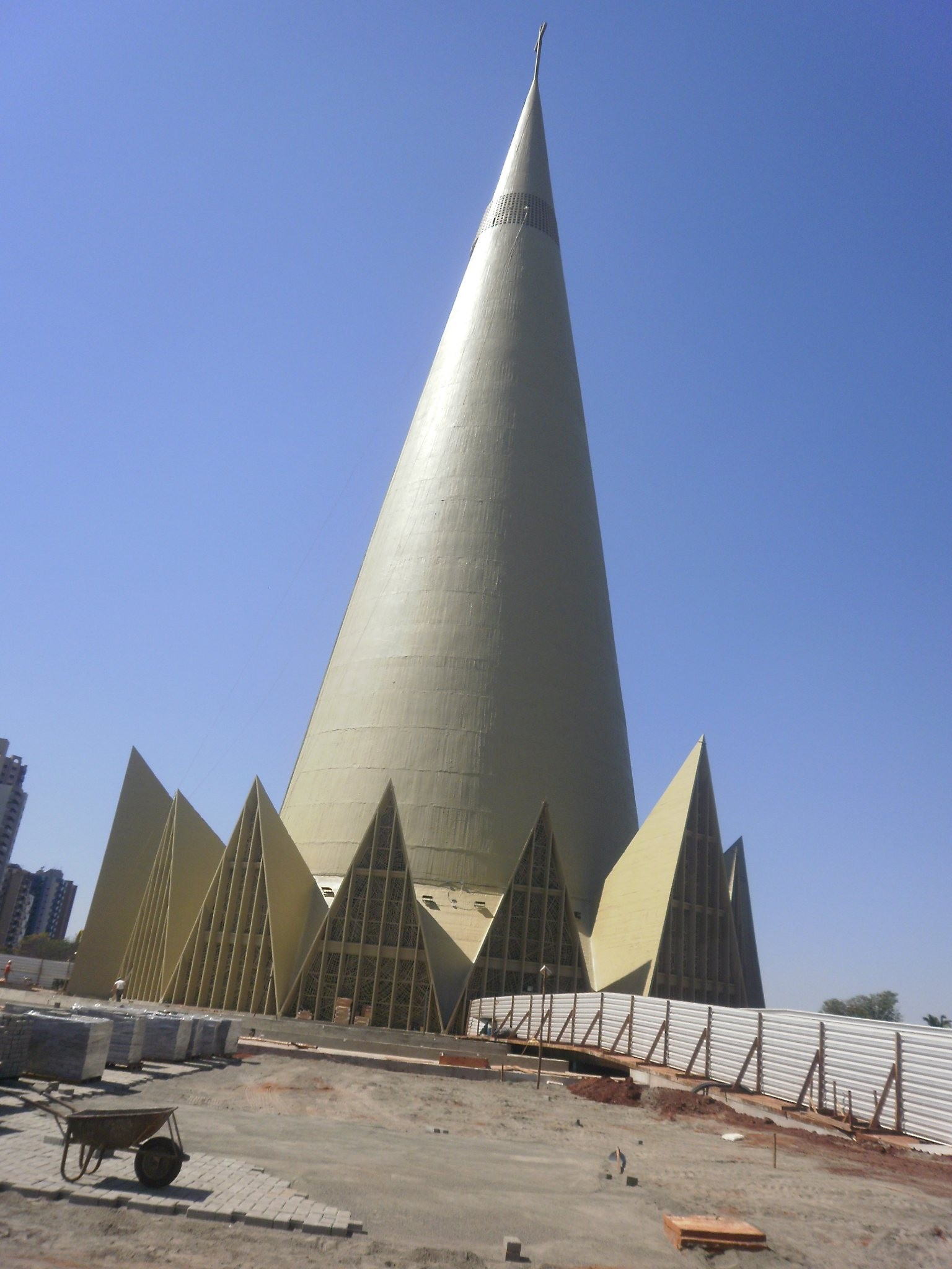 catedral